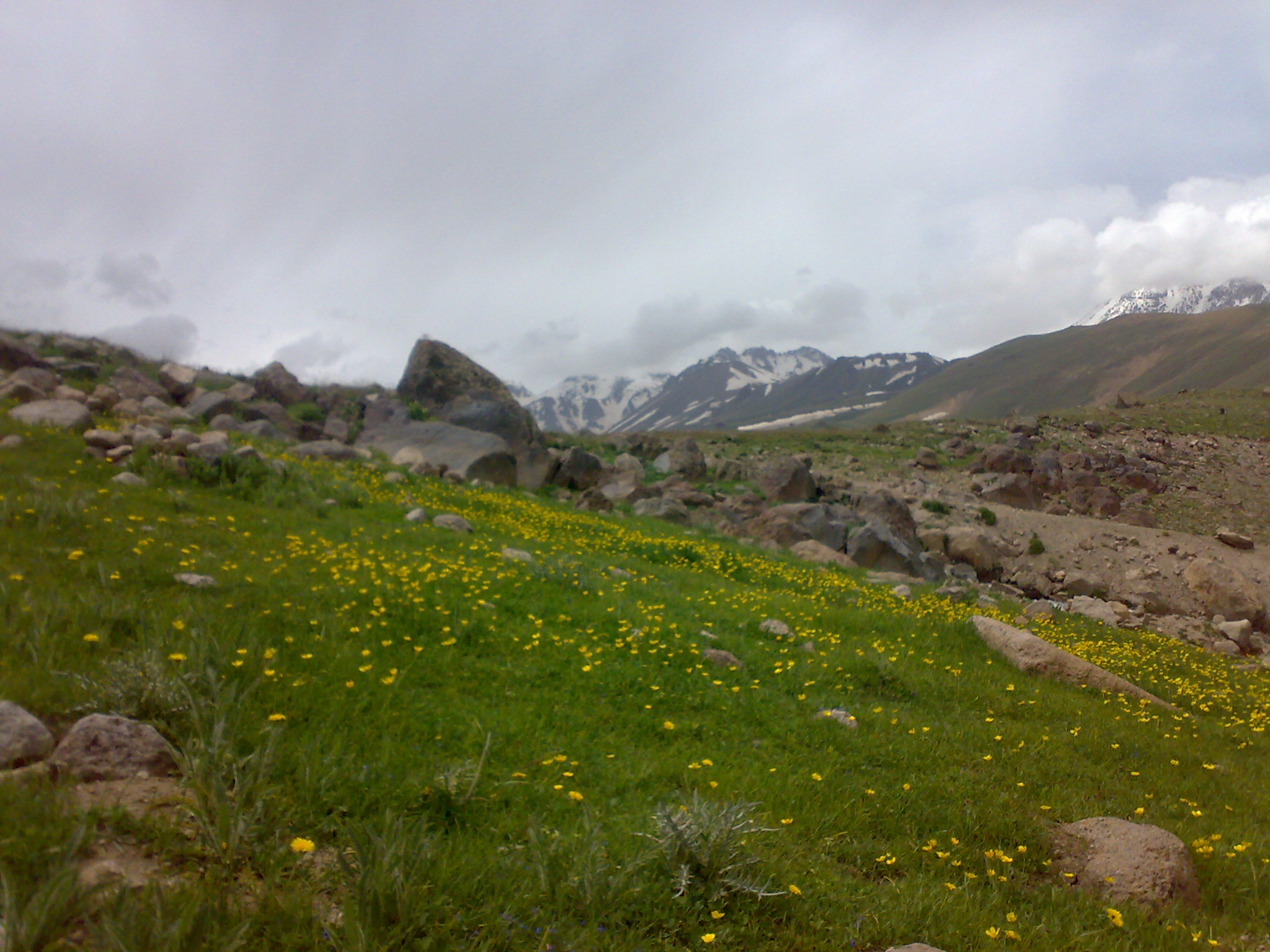 Sabalan Hillside,Sareyn,Iran